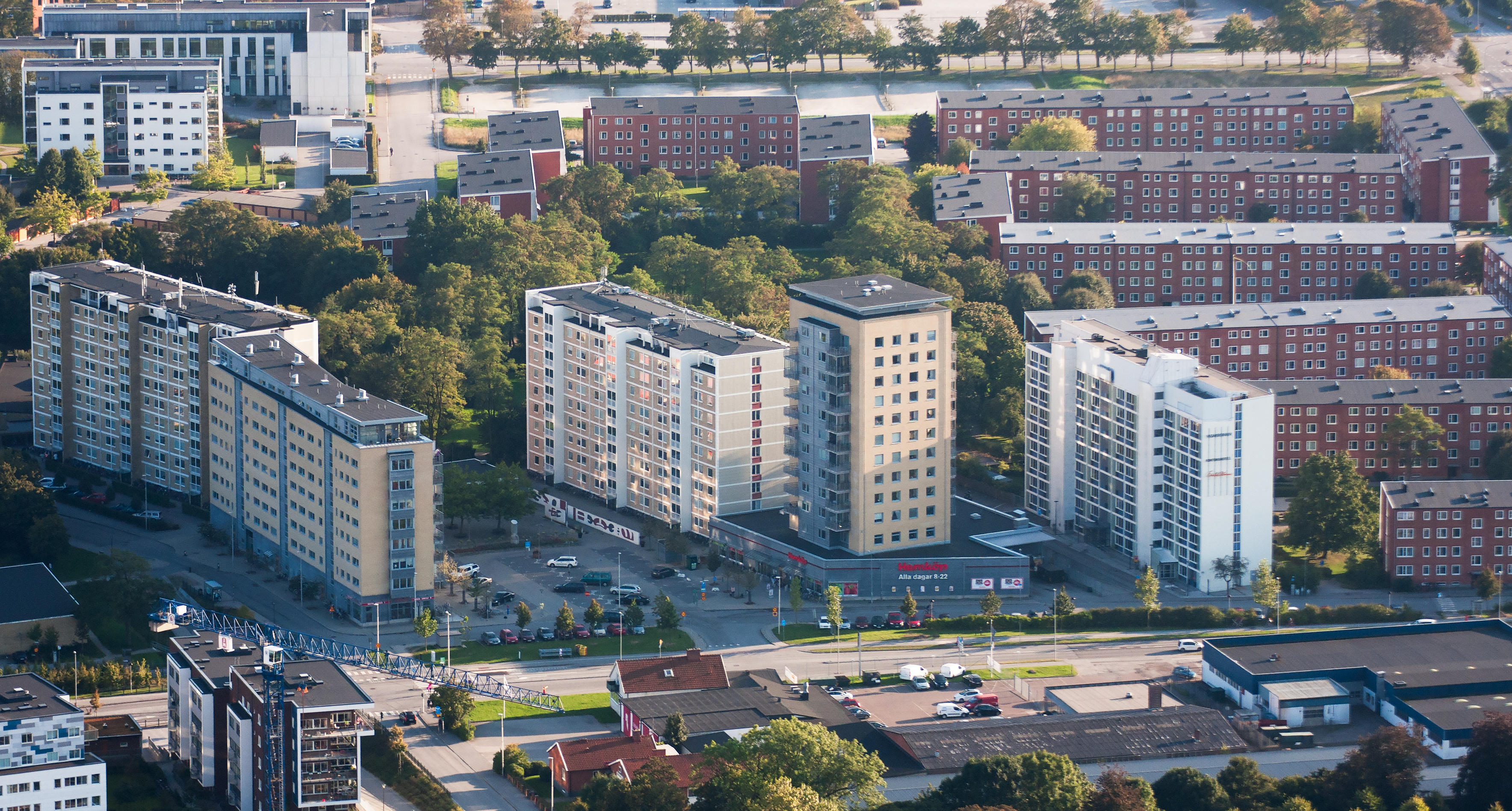 Neighbourhood Järnåkra in Lund, Sweden.